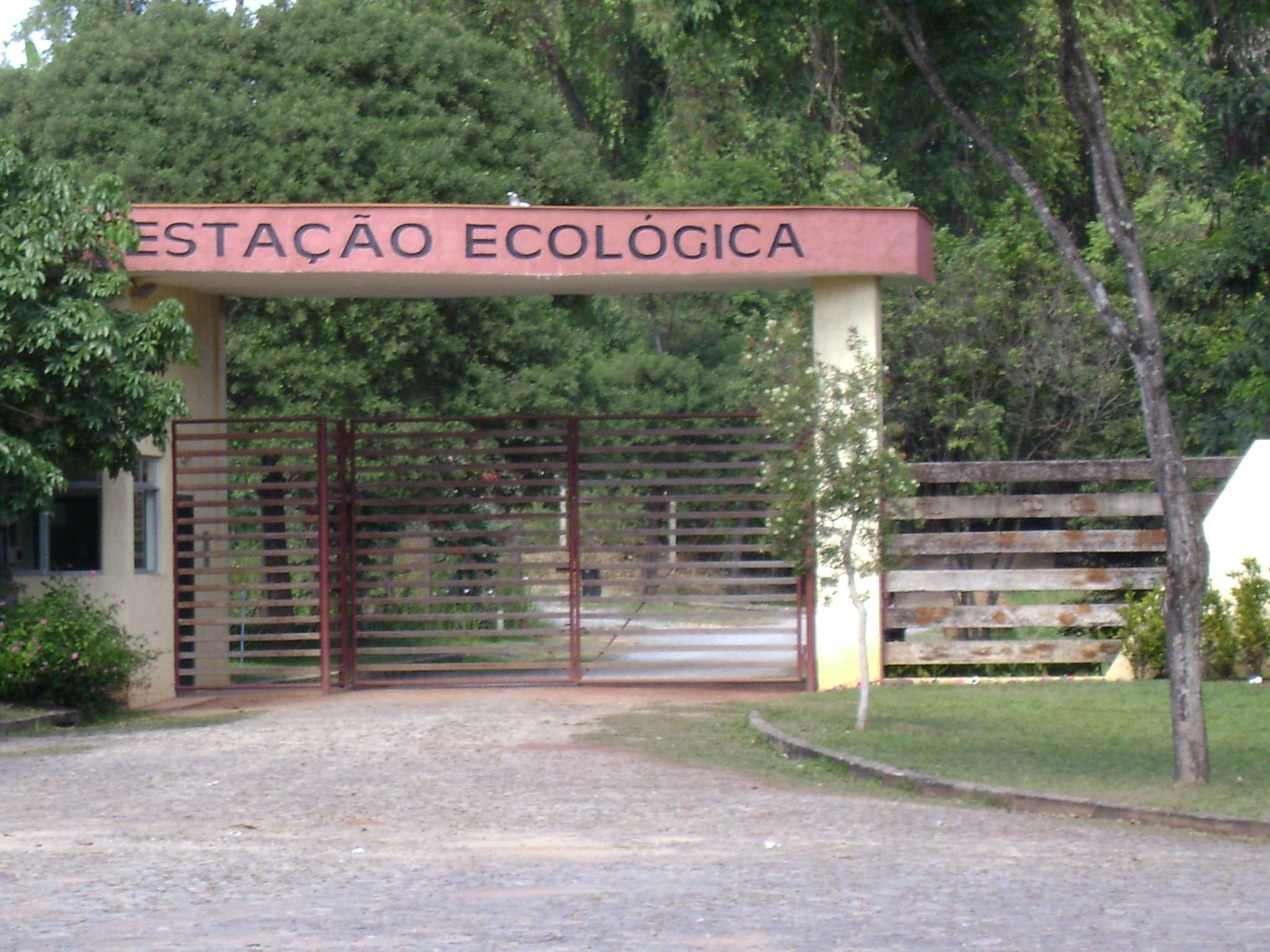 Entrada da estação ecológica da UFMG.